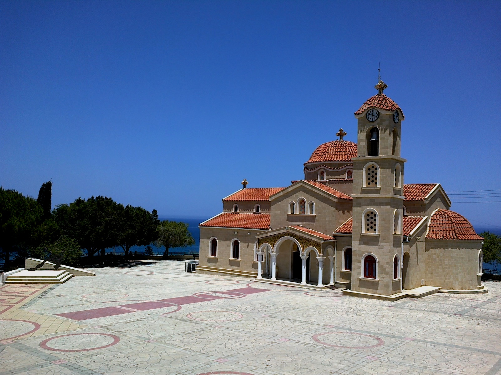 Chypre Pacchyammos Agios Raphael